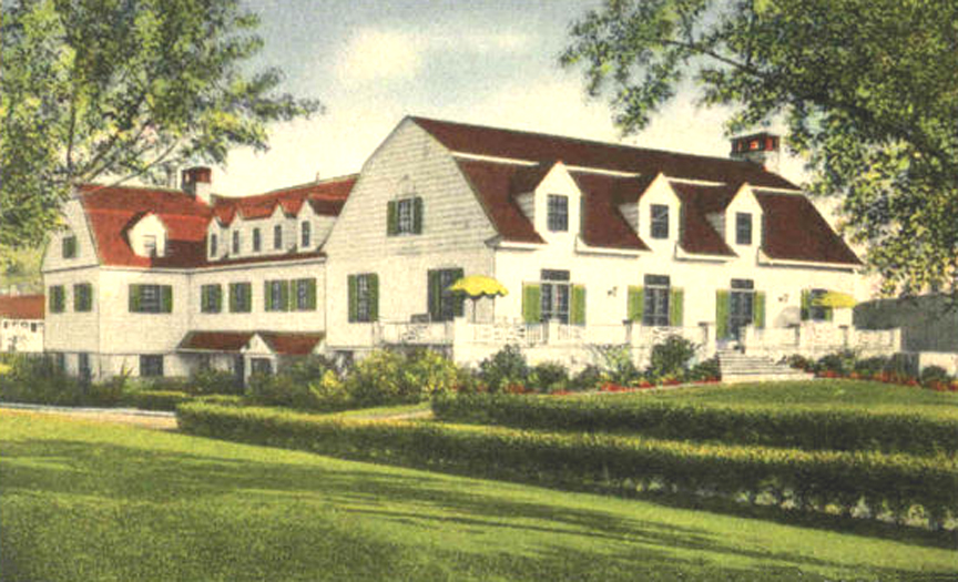 Drumlins Country Club on East Colvin Street in Syracuse, New York - Open to the public summer and winter